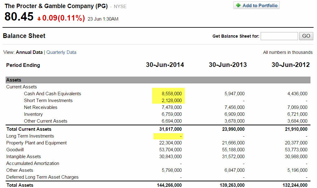 An example how CCE is included in current assets